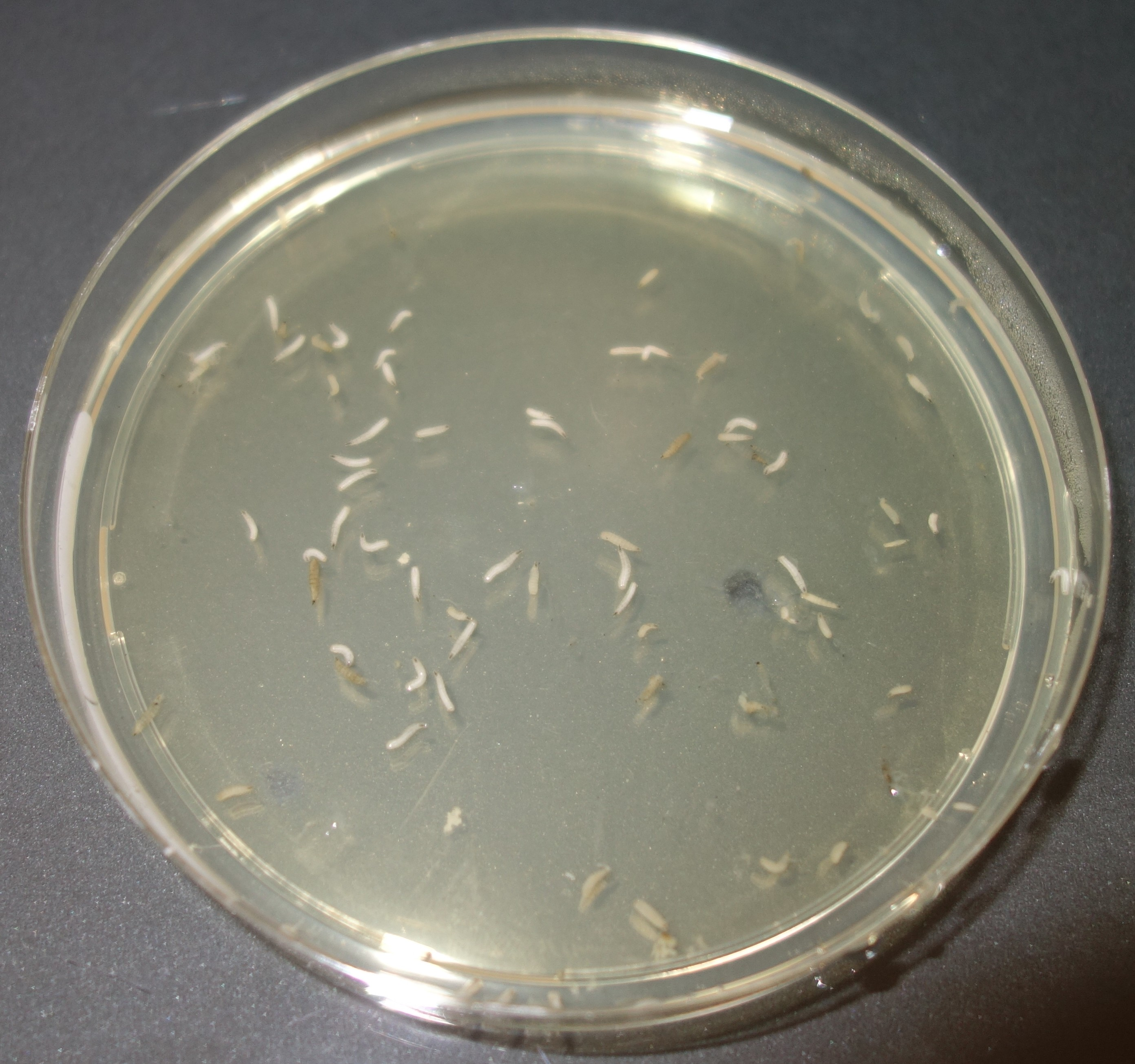 Medical maggots for larval therapy in petri dish.